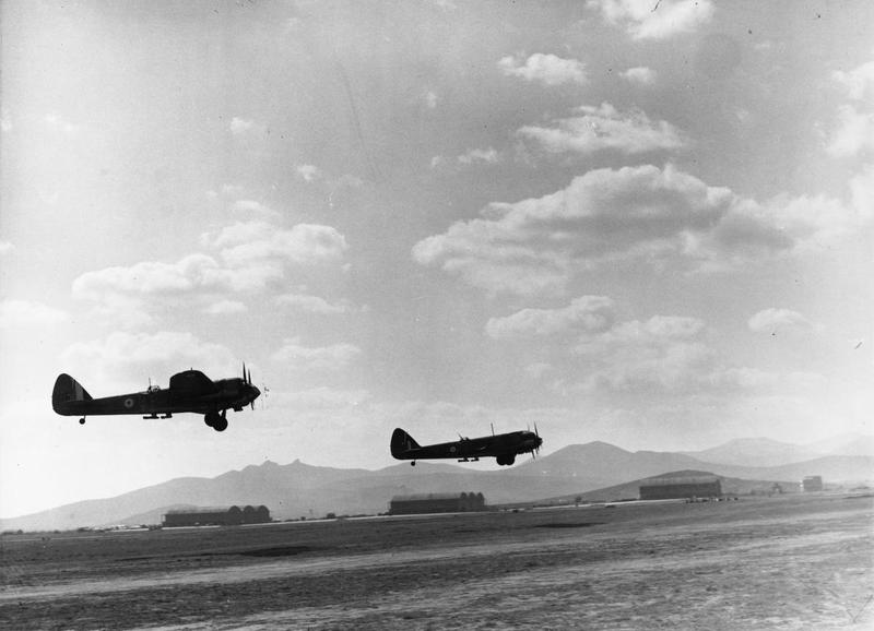 Royal Air Force Operations Over Albania and Greece, 1940-1941. Two Bristol Blenheim Mark Is of 'A' Flight No. 30 Squadron RAF, taking off from Eleusis, Greece, for a bombing raid over Italian-occupied Albania. Both aircraft are carrying external bomb loads in the Light Series Carriers fitted under the fuselage.